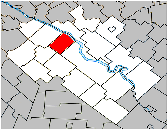 Location of Saint-Majorique-de-Grantham, Quebec within Drummond Regional County Municipality.